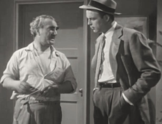 Tudor Owen (left) & Scott Brady in Port of New York - cropped screenshot